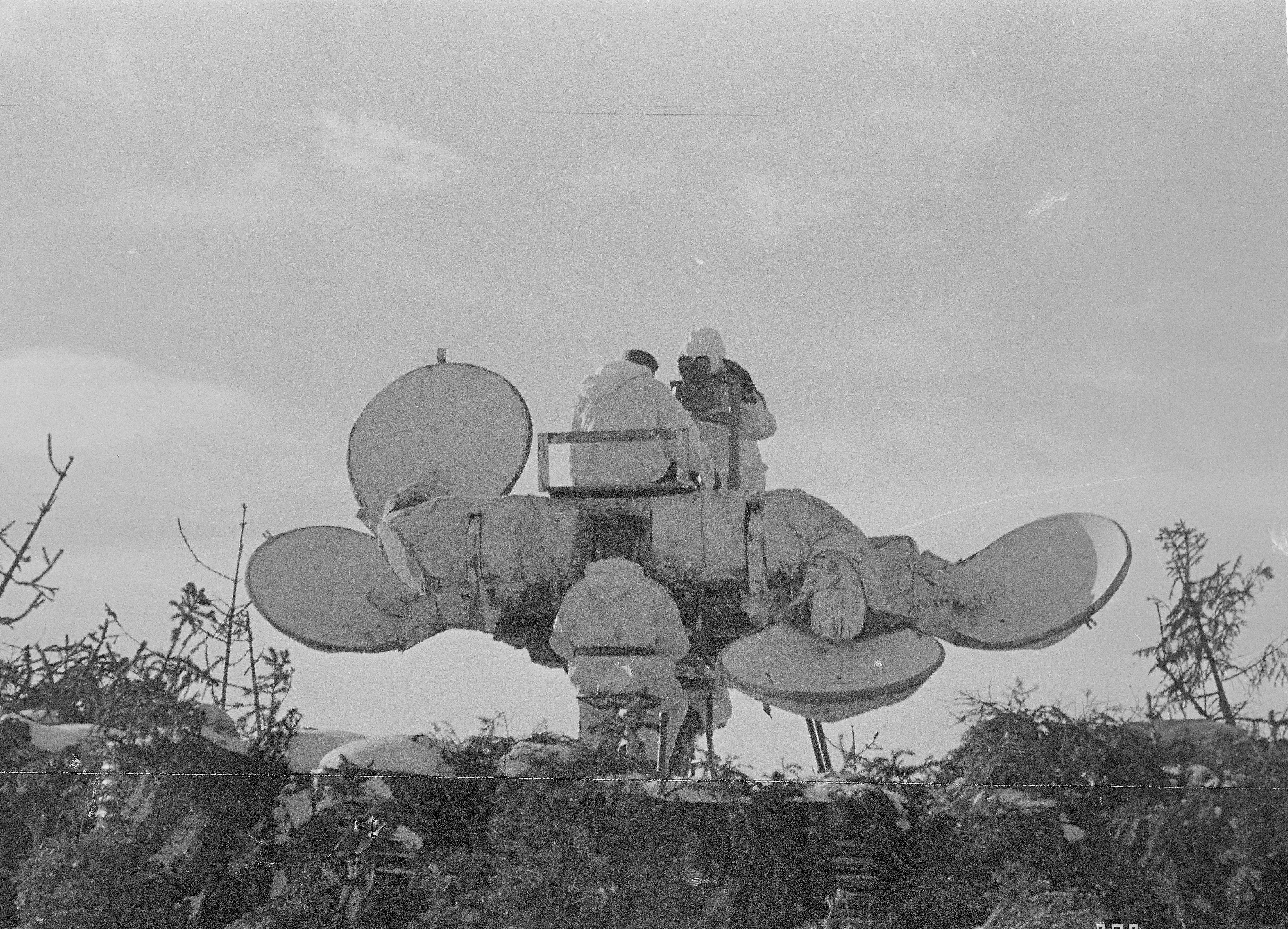 A Czech acoustic aircraft locator made by Goerz used in Finland during World War 2. Before radar, this technology was used between WW1 and WW2 by air defense forces to locate incoming enemy aircraft by the sound of their engines. This unit was used to direct searchlights to illuminate the aircraft to target antiaircraft fire. The unit consists of two pairs of "scoop" sound collectors, one pair in the horizontal axis to determine the aircraft's azimuth, and one offset pair in the vertical axis to determine the aircraft's elevation. Sound ducts from each pair conducted the sound to the ears of a technician.